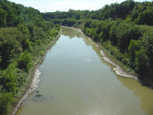 saline river view from bridge